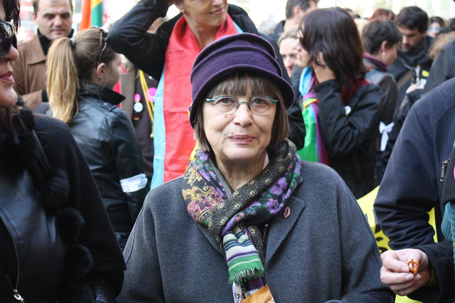 Natasa_Kandic